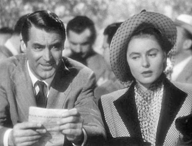 This screenshot shows Cary Grant and Ingrid Bergman at a horseracing track.